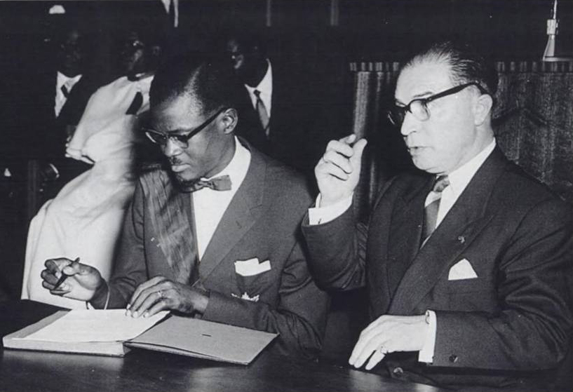 Congolese Prime Minister Patrice Lumumba signs the document granting independence to the Congo next to Belgian Prime Minister Gaston Eyskens